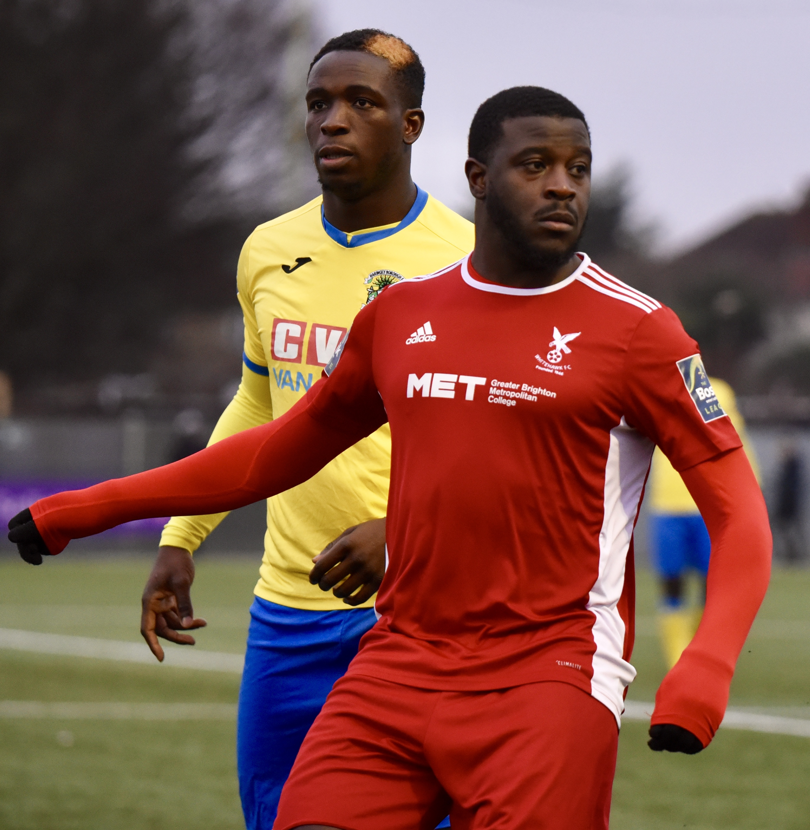 Jason Williams Whitehawk FC 2019